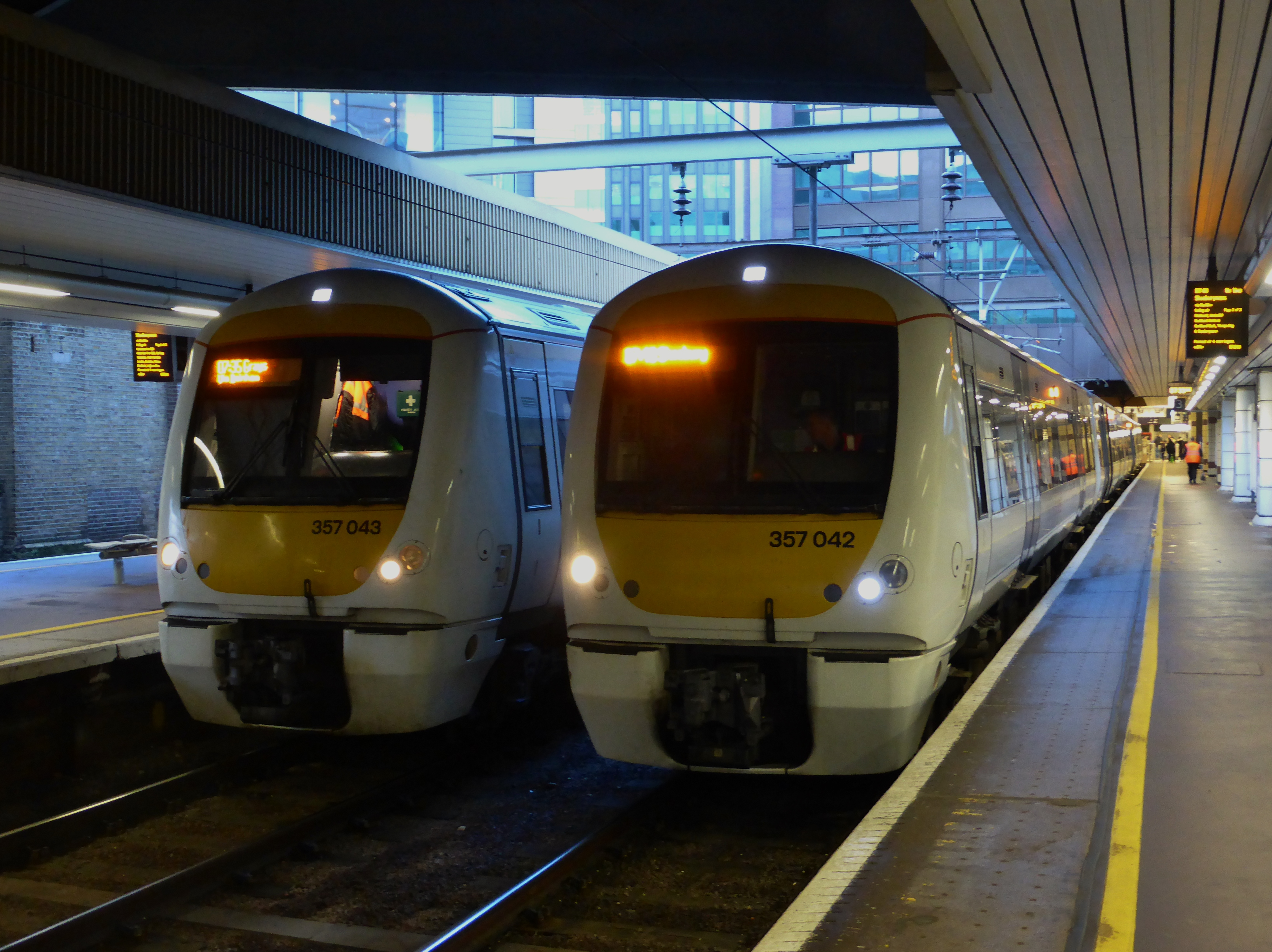 357043 and 357042 at Fenchurch Street